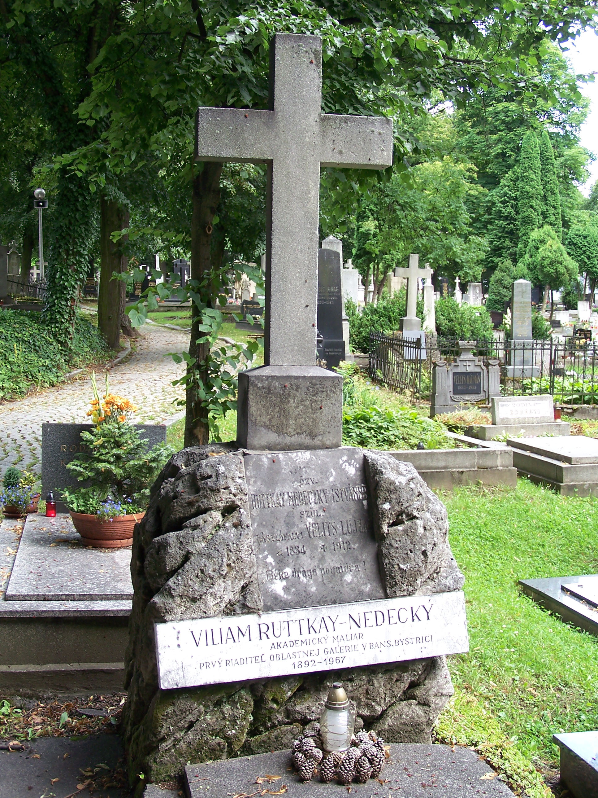 Grave of Viliam Ruttkay-Nedecký at the National Cemetery in Martin, Slovakia